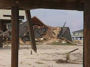 undetermined, AL, October 8, 1998 -- The rubble of a home can be seen through the snapped pilings of another home damaged by Hurrican Georges. FEMA photo by John Pilger, EIPA